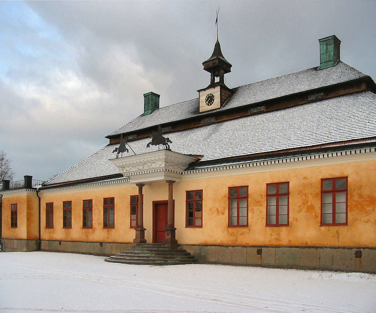 Skogaholm manor at Skansen in Stockholm.